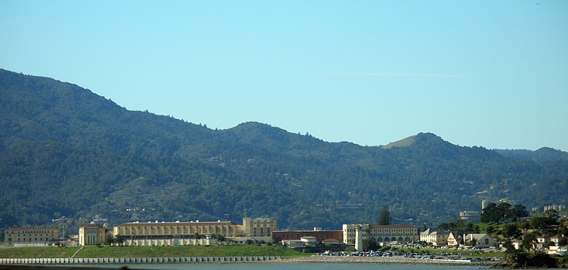 San Quentin State Prison, located in Marin County, California, as seen by westbound traffic on the Richmond-San Rafael Bridge (Interstate 580).